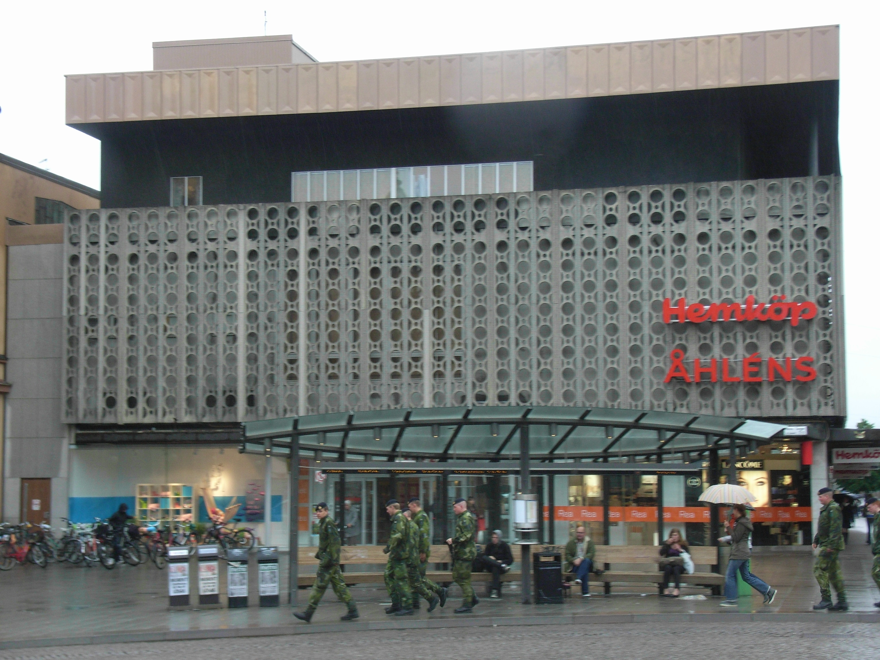 Hemköp Supermarket Uppsala